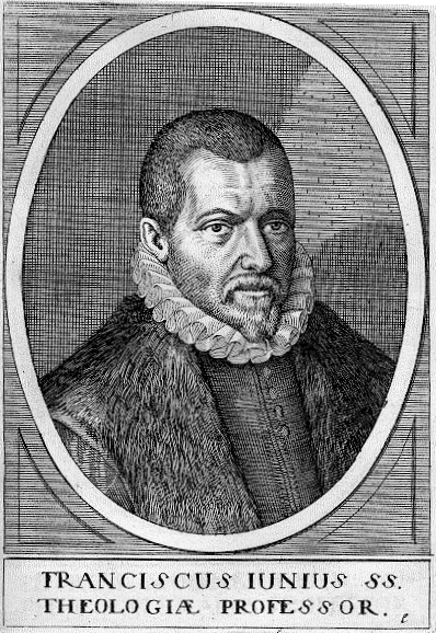 Etching of Franciscus Junius by Jean-Jacques Boissard.